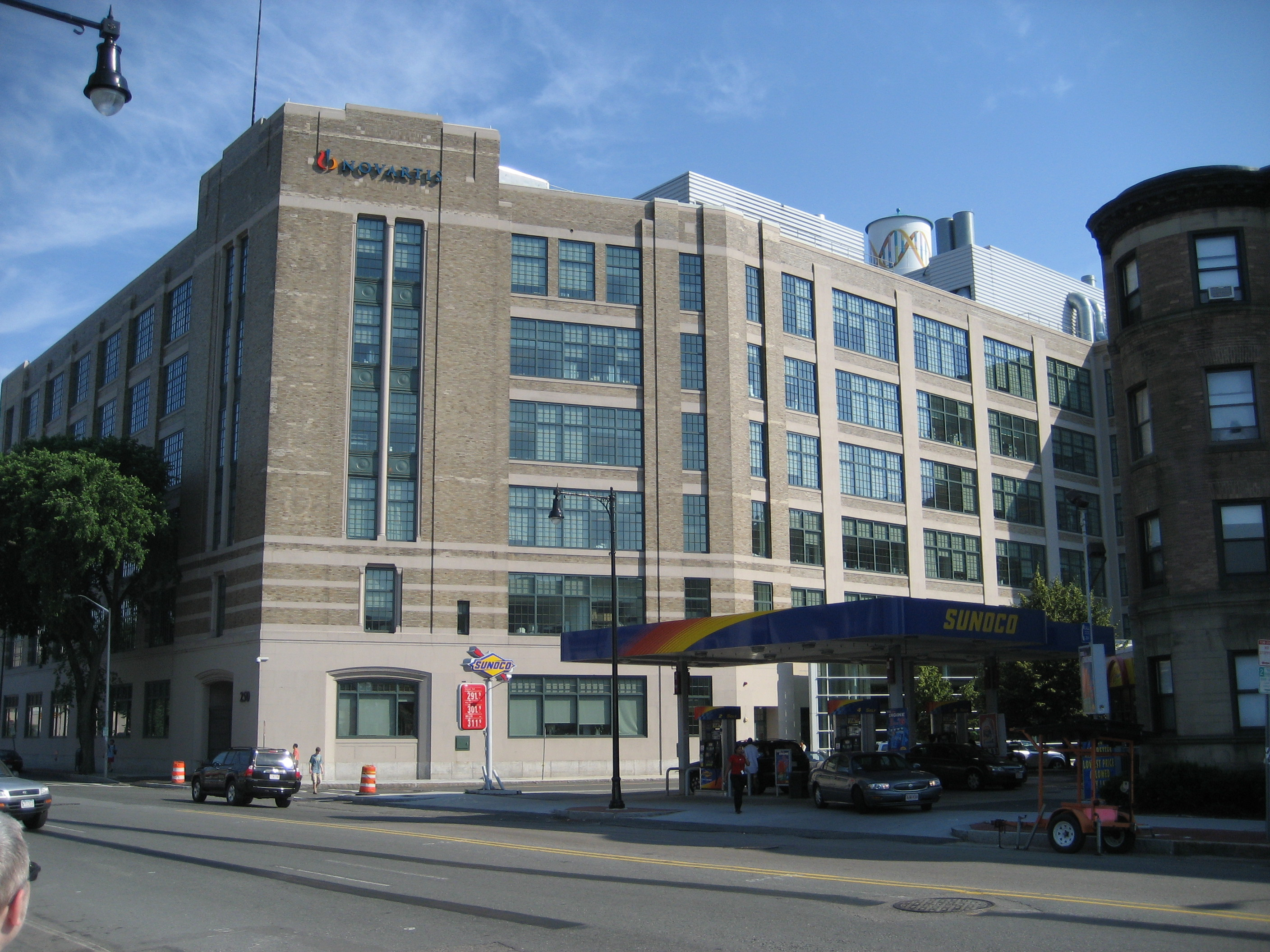 Novartis Building at 250 Massachusetts Avenue in Cambridge, Massachusetts, formerly the "Necco Wafer" candy factory. Notice DNA depiction on water tower. Sunoco station is in the foreground.